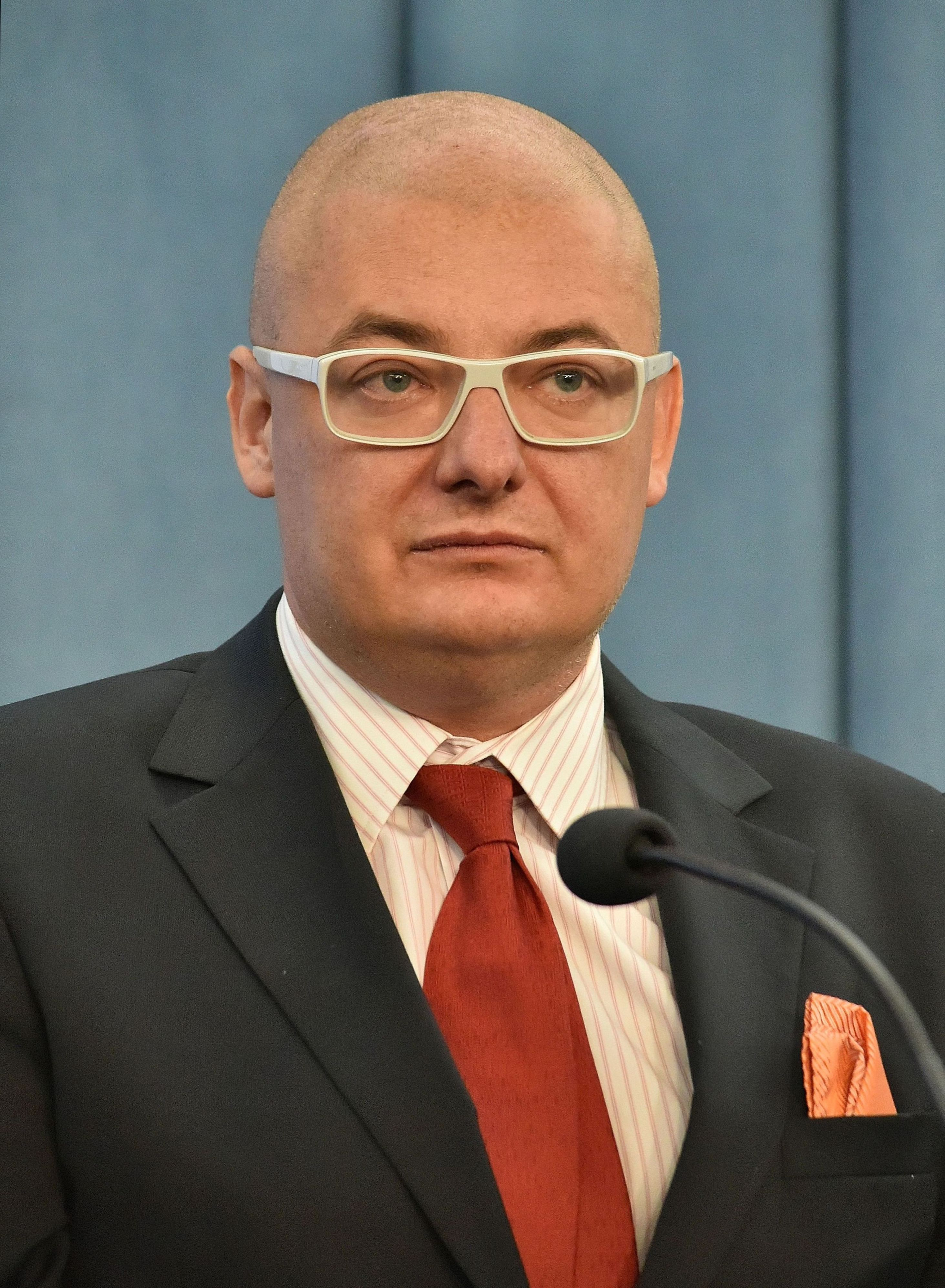 Polish MP Michał Kamiński in the Sejm